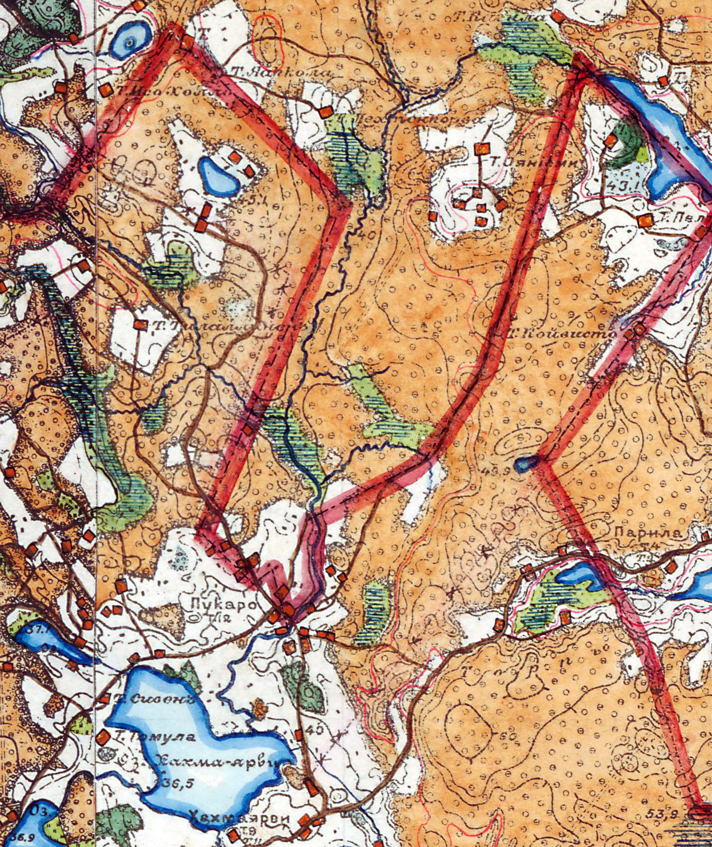 Old Map of Pukara Village, which located in late Mouhijärvi parish (Finland). Nowadays it is part of Sastamala (town).